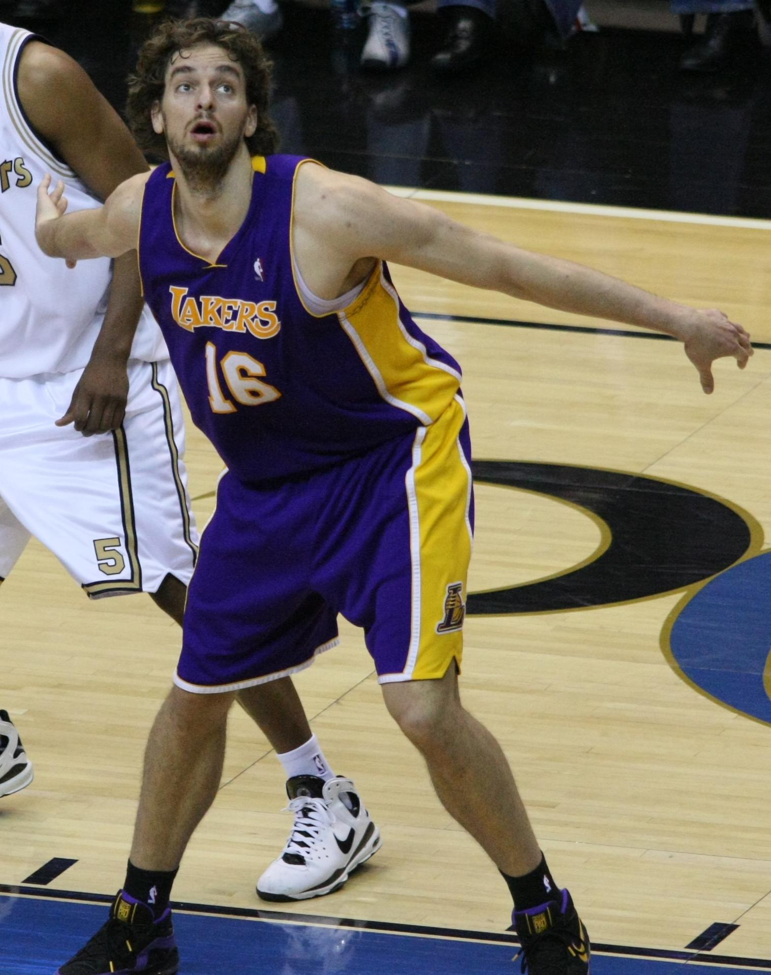 Pau Gasol boxing-out for a rebound.